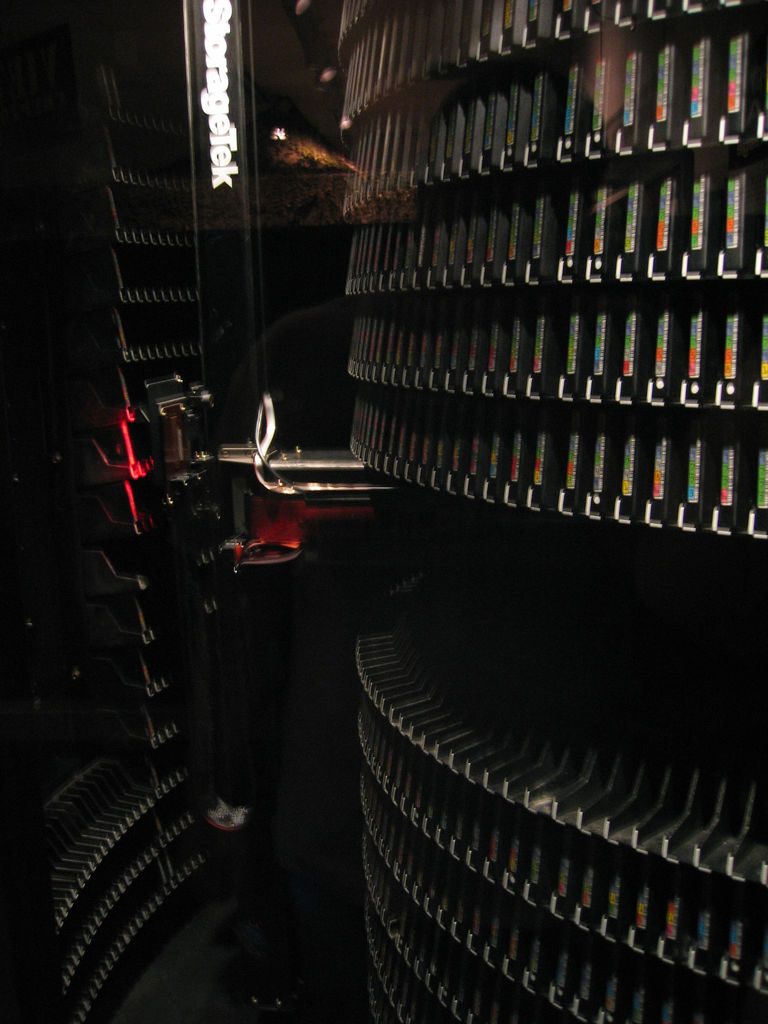 StorageTek Powderhorn tape library with tape shelves and a robot's arm visible. Visible height of a library is about 180 cm.